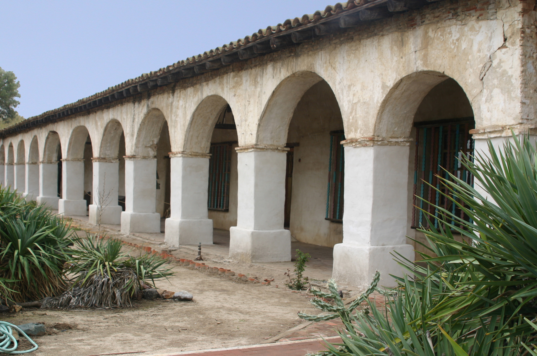 Mission San Miguel famous varying-sized arches